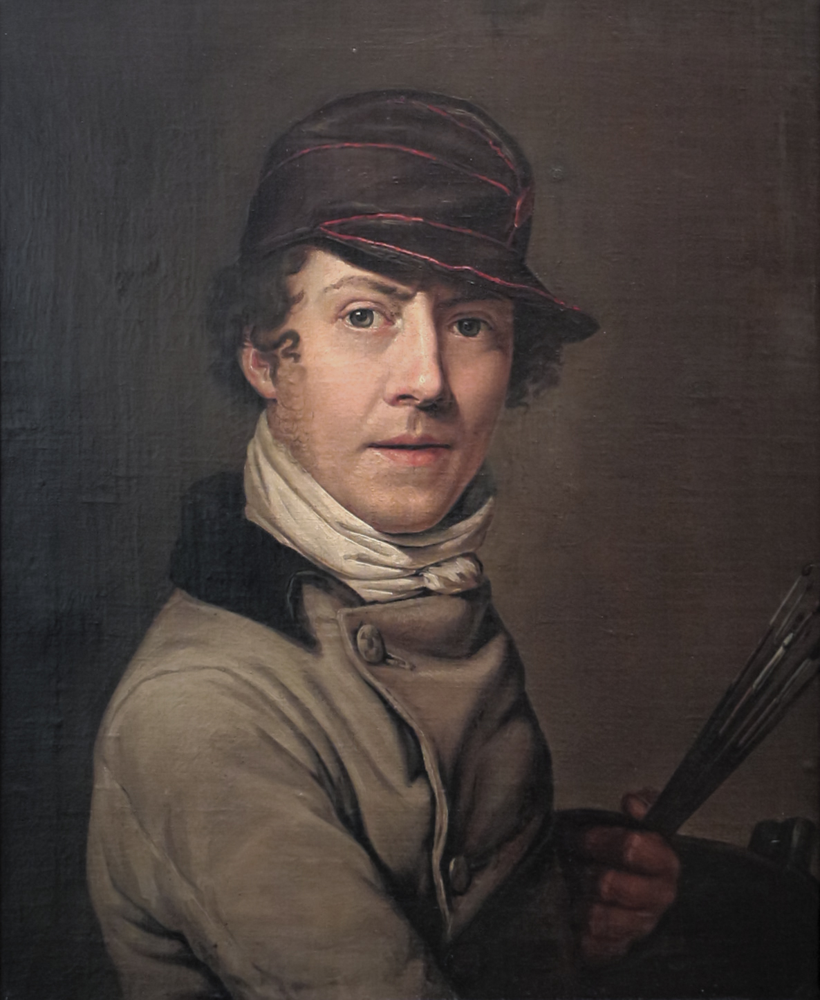 Self-portrait of Pieter Christoffel Wonder (1780-1852)